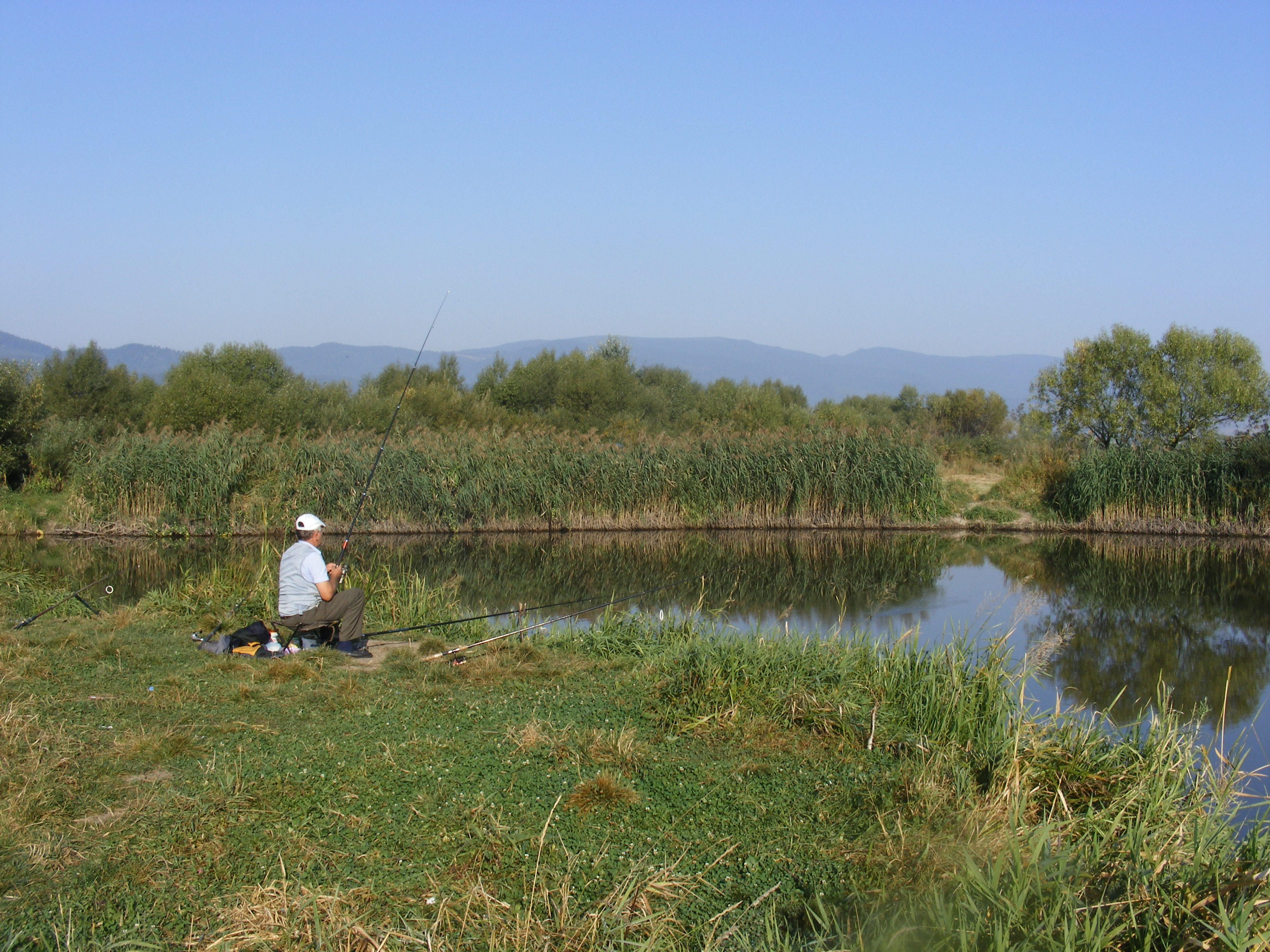 The Olt river near Miercurea Ciuc, Hargitha County, Transylvania